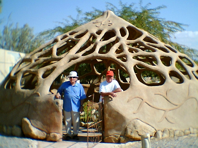 Kibutz Yahel